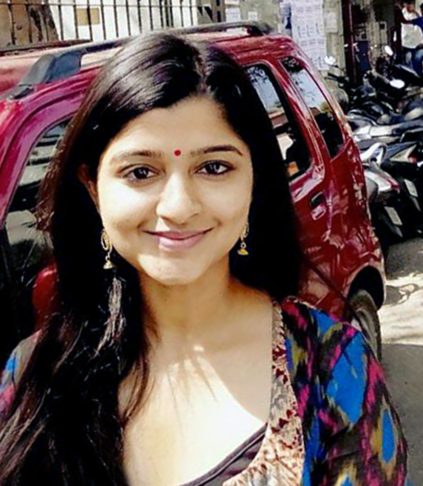 A cropped selfie pic of Aishani Shetty captured in 2016 at Bangalore.